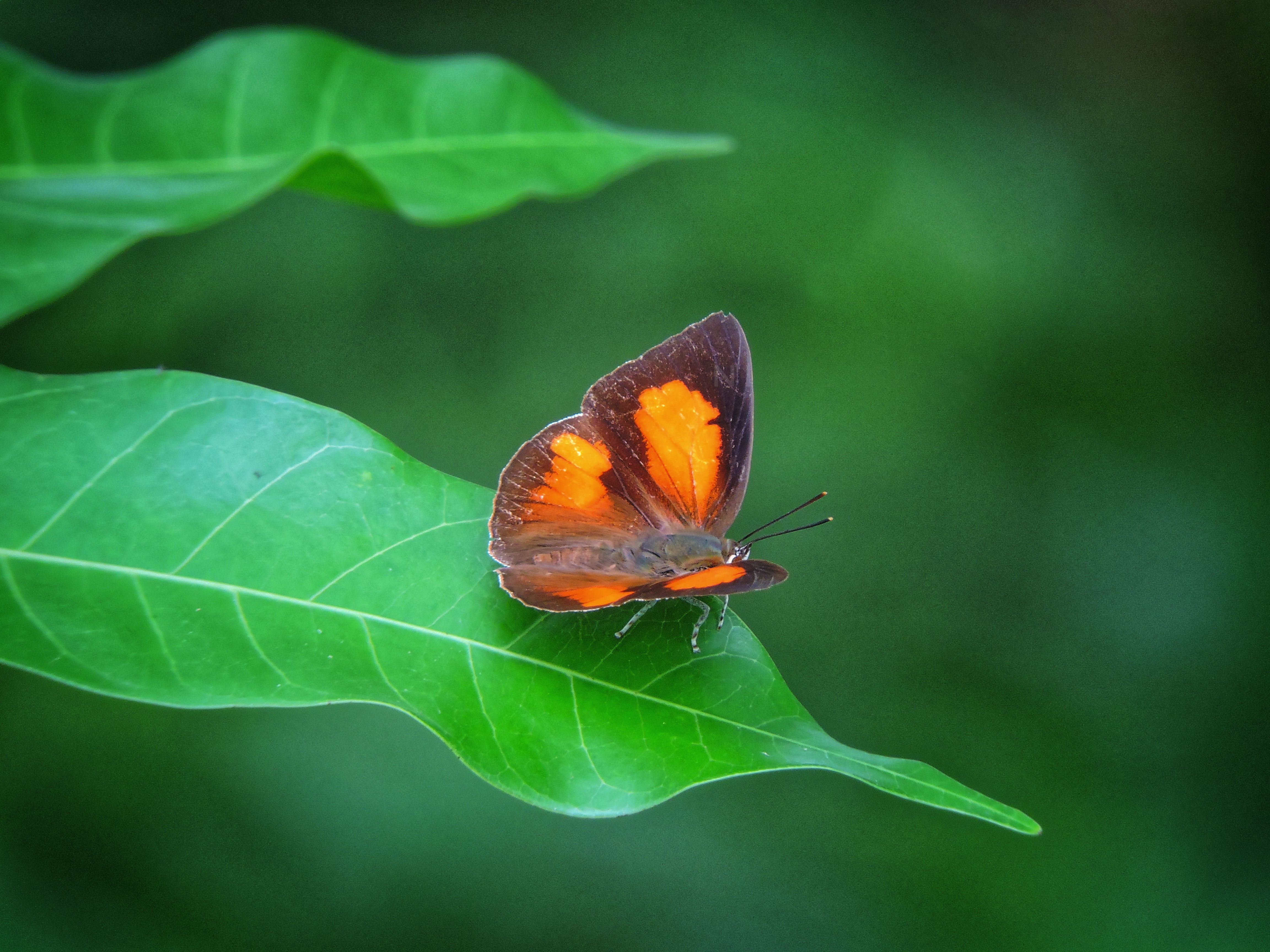 Curetis acuta, the angled sunbeam, is a species of butterfly belong to the lycaenid family